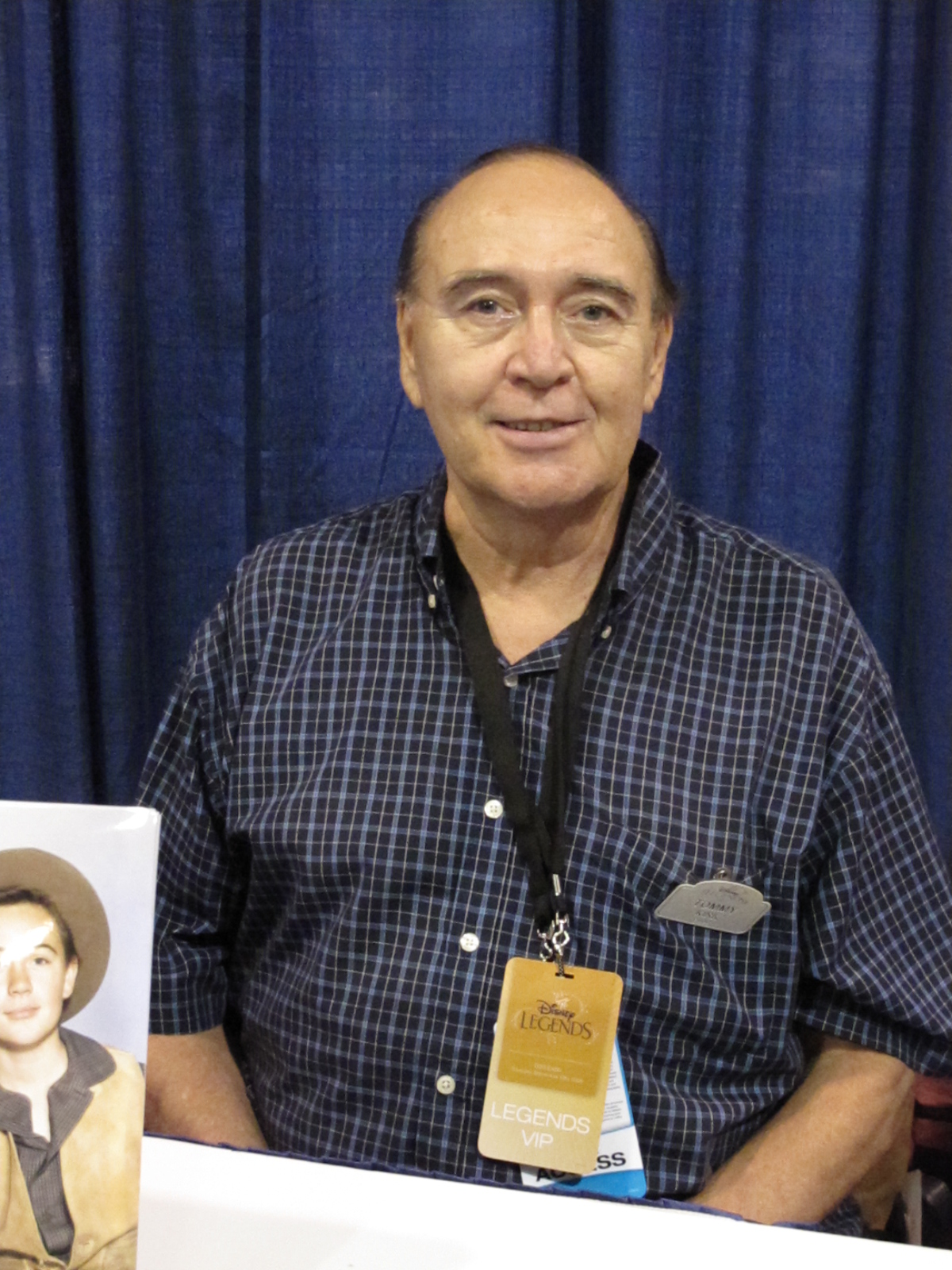 Tommy Kirk at the 2009 Disney D23 Expo at the Anaheim Convention Center in Anaheim, California